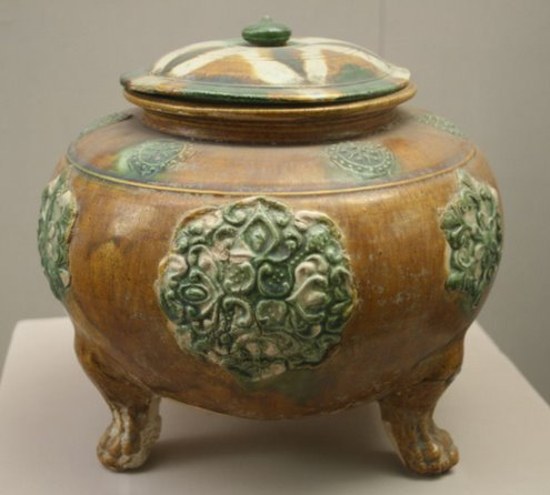 Chinese sancai-glazed pottery footed jar from the Tang Dynasty (618-907 AD) of medieval China.